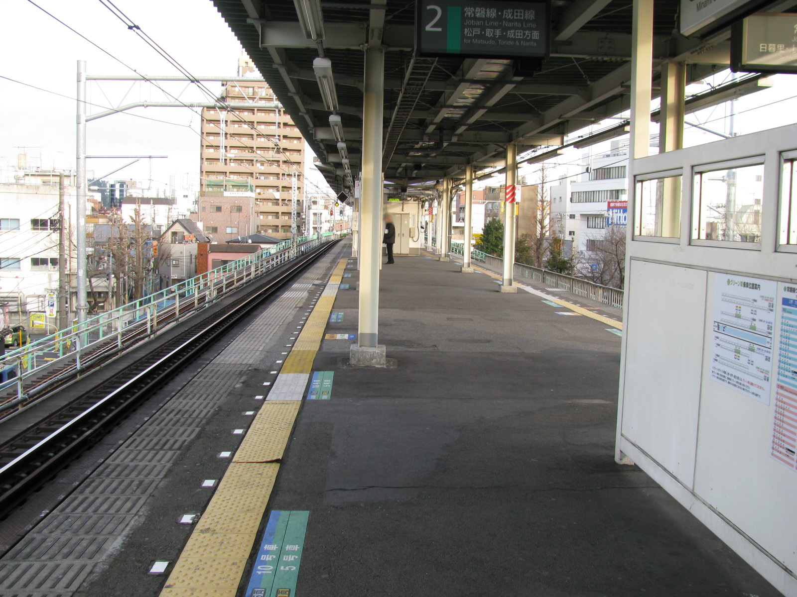 platform at Mikawashima station